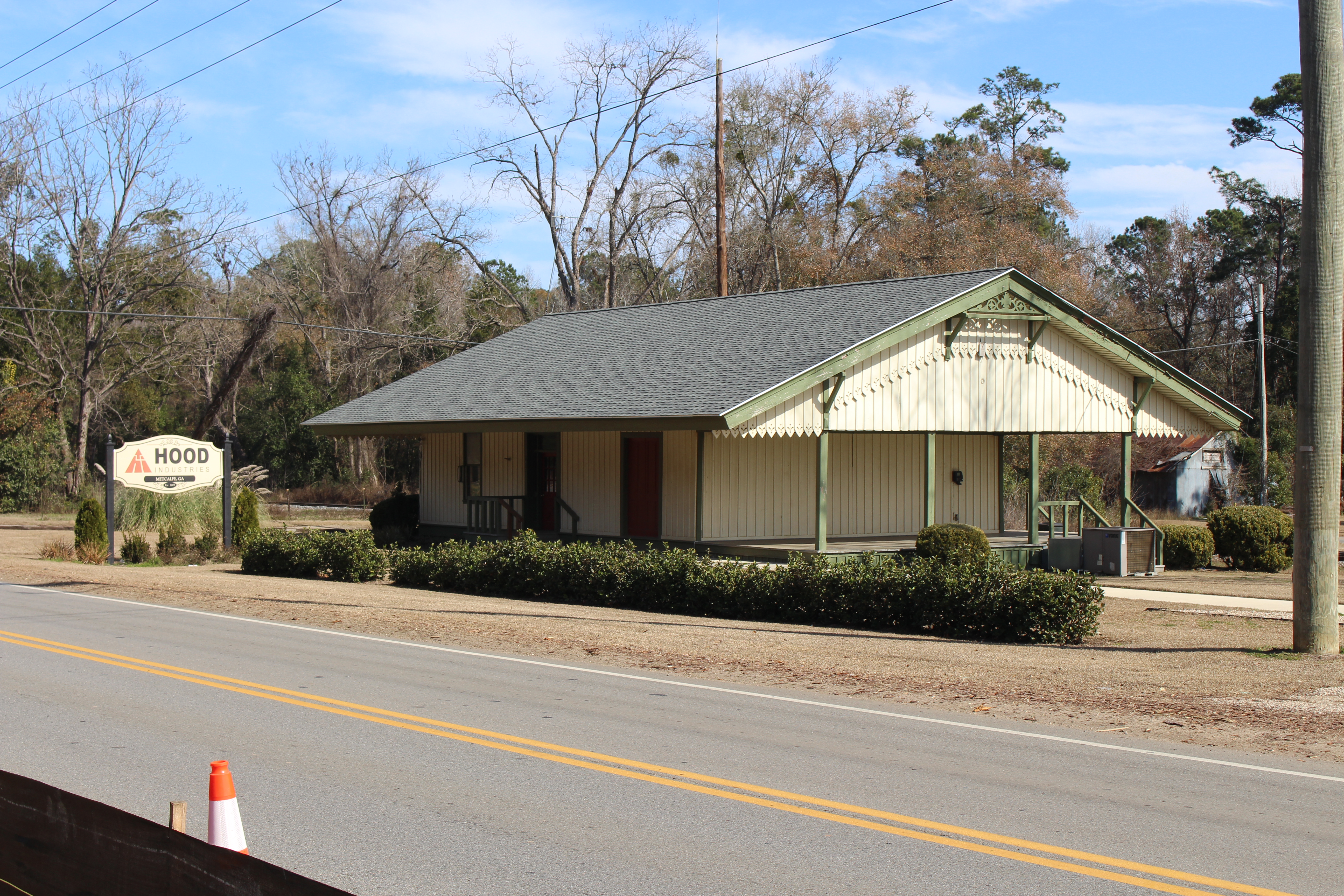 Metcalfe Depot SW corner, Metcalfe, Thomas County, Georgia